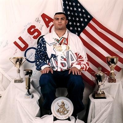 1992 Olympic Picture, Matt Ghaffari